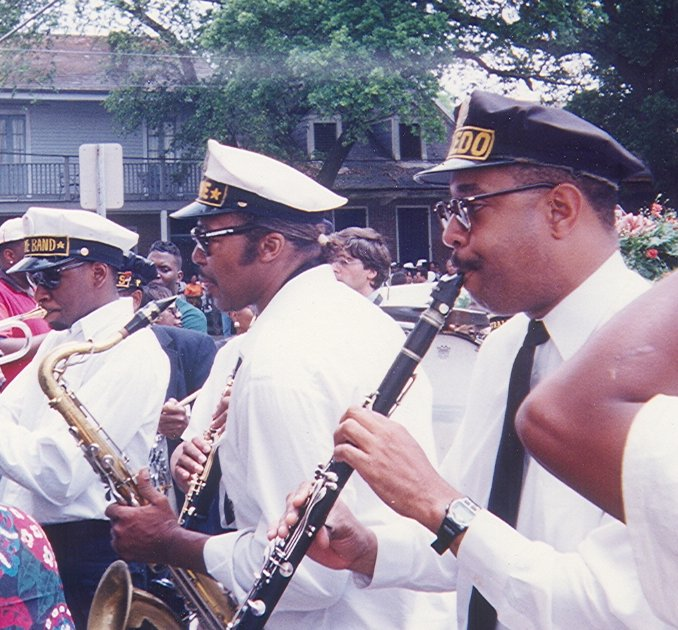 Musicians at Jazz funeral in Treme, New Orleans. Dr Michael White at front right. At door of St. Augustine Church. Photo by Infrogmation (talk), May 1994, Funeral for Milford Dolliole.